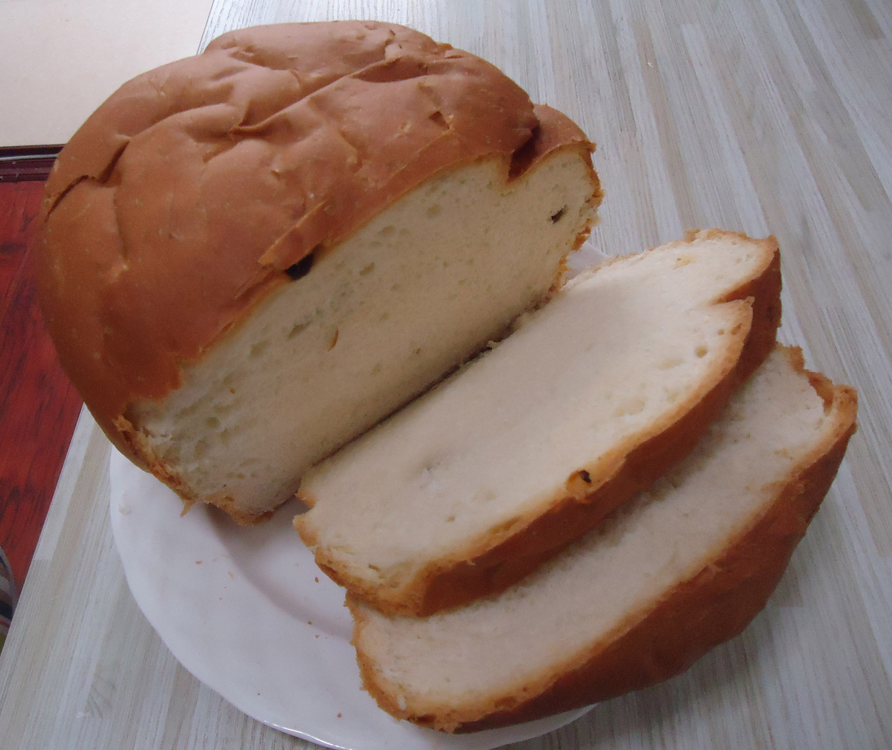 Dalieba bread sold at Dashang Group's gourmet shop in Dalian, China.